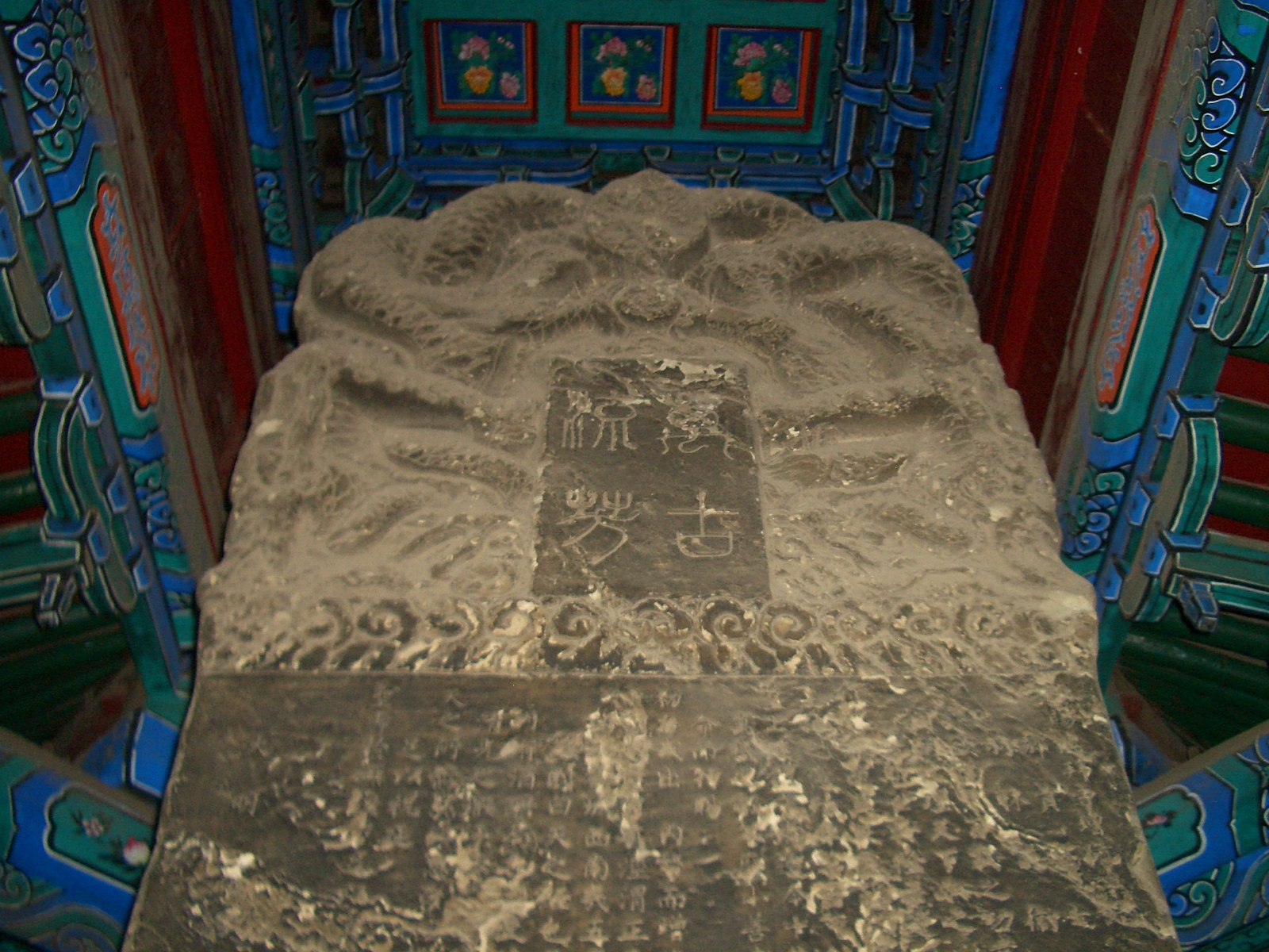 Niujie Mosque, Beijing